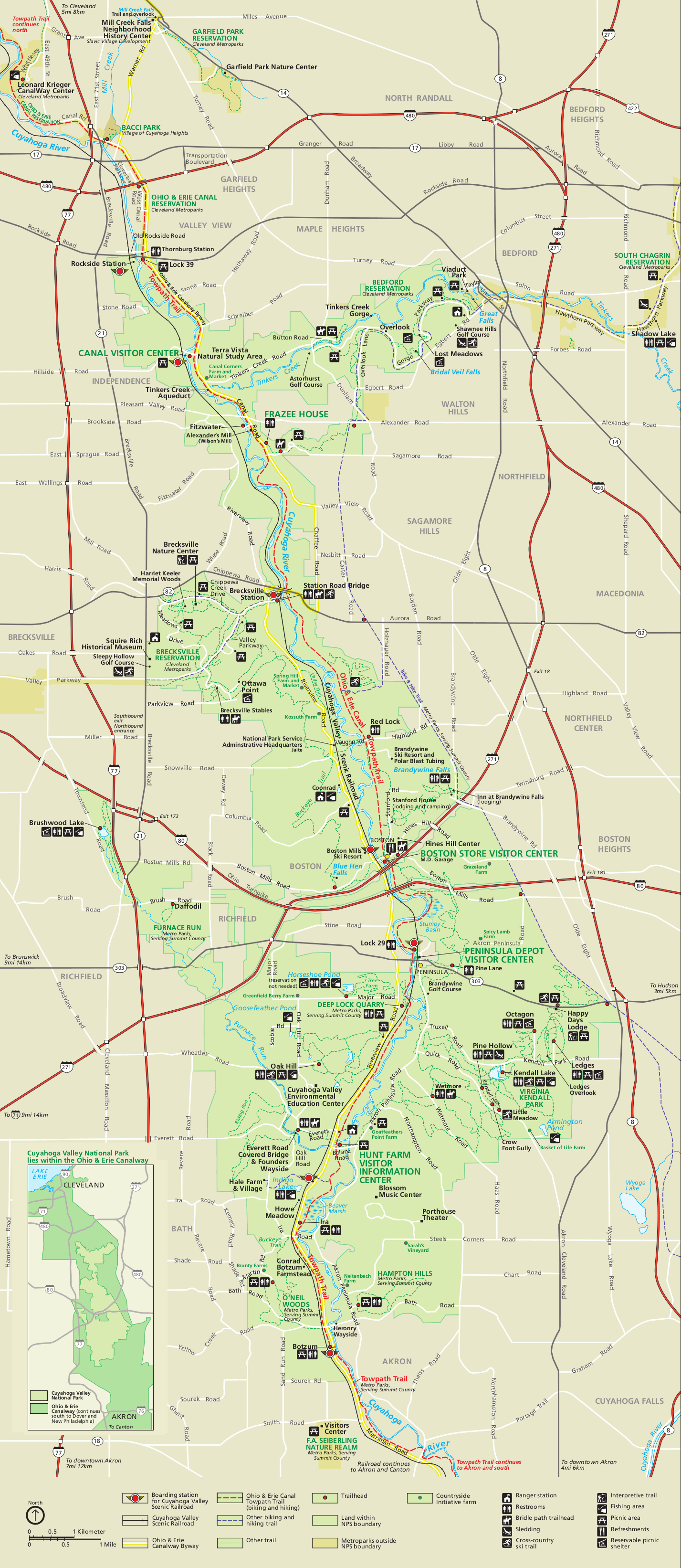 Complete Cuyahoga Valley map from the official brochure, showing all the trails, roads, and points of interest.